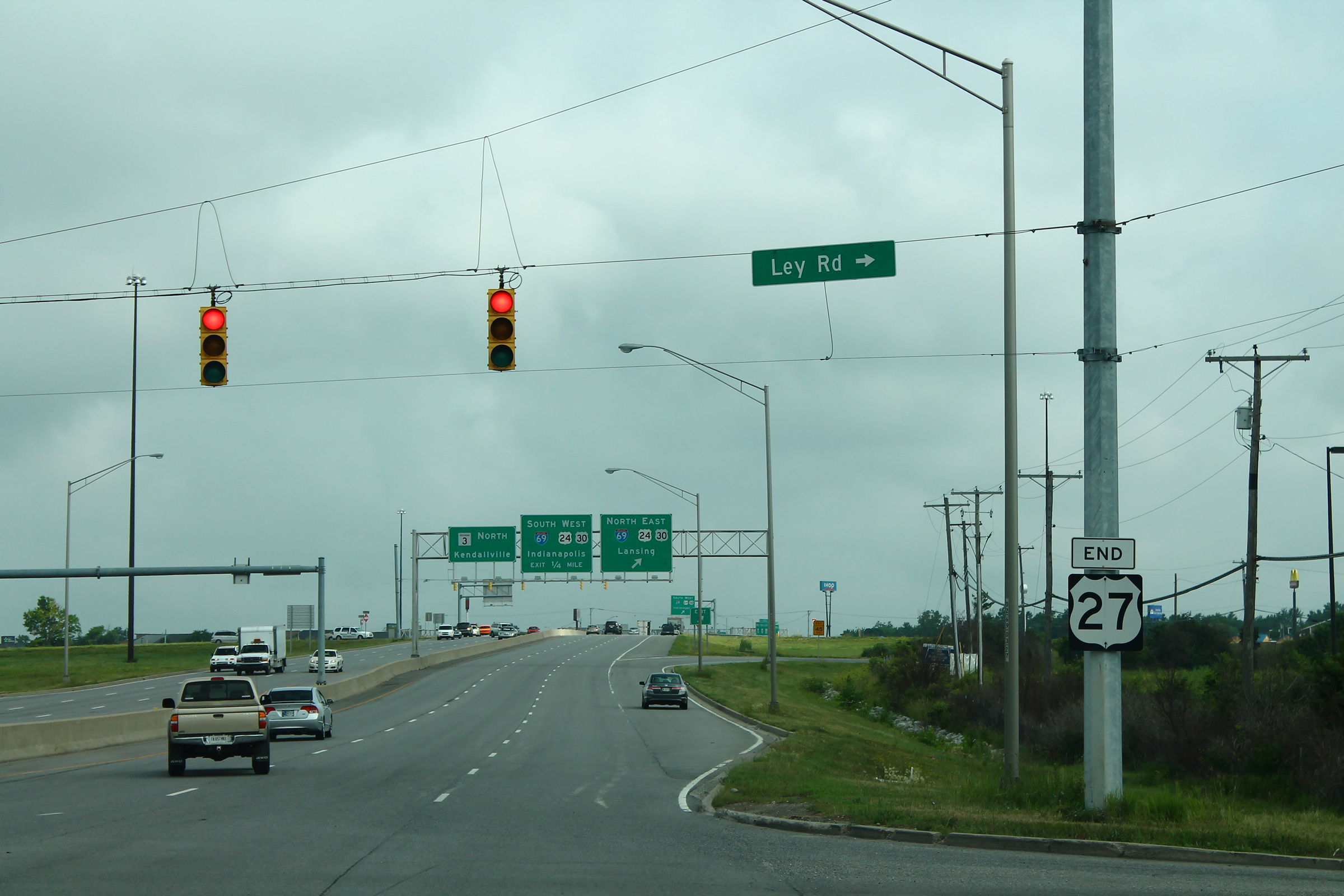 In 2002, the north end for US Route 27 was truncated to I-69 in Fort Wayne, Indiana. The southern end is at US 1 in Miami, Florida. At one time, US 27 seemed far away to me (30 miles away) and represented a land apart from what I was used to. To see the other end of the route is emblematic of my journeys...